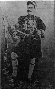 Portrait of Dimitrios Spanopoulos.